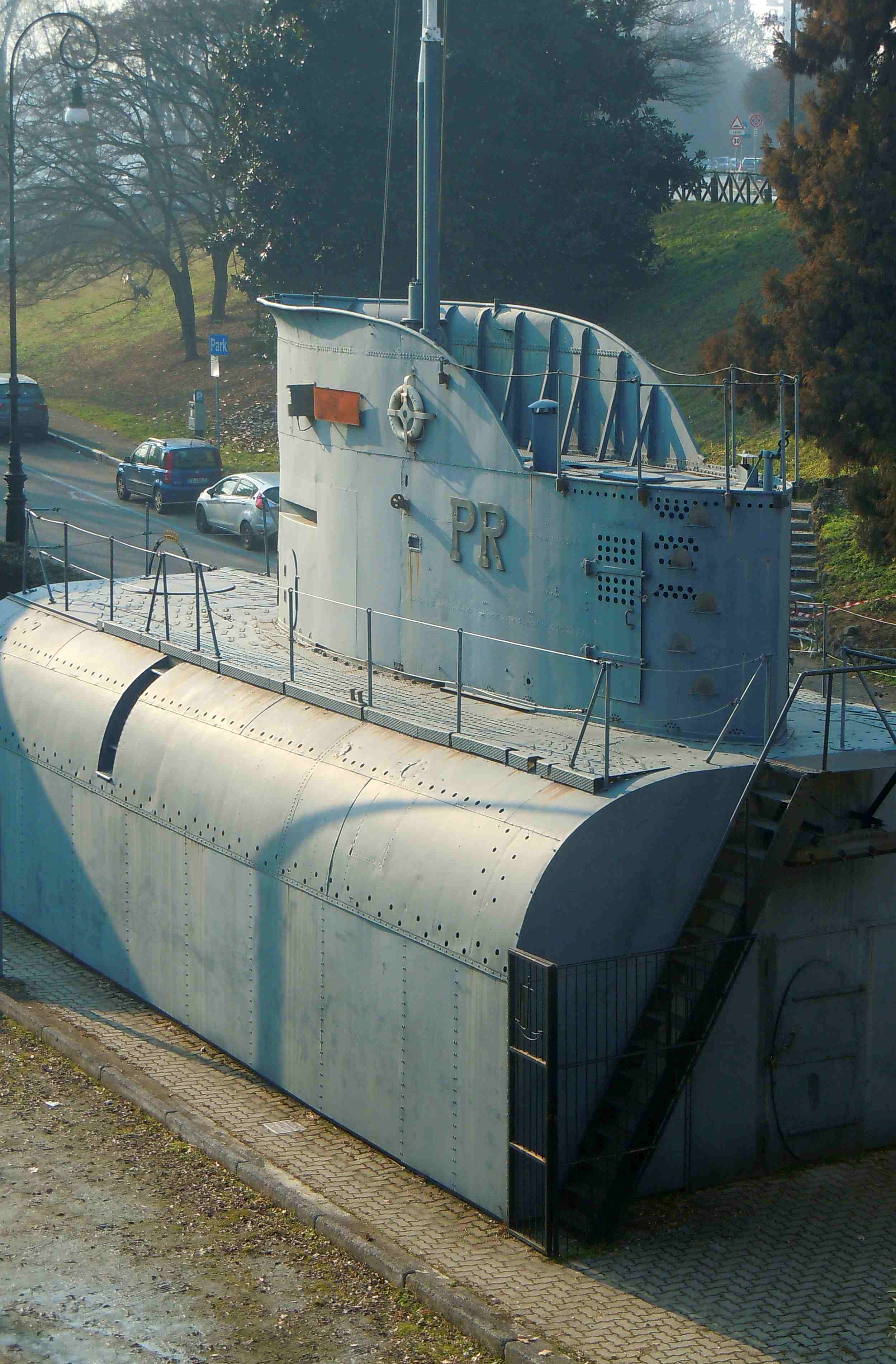 Andrea Provana submarine (located near the ANMI headquarters of Turin, Valentino park)